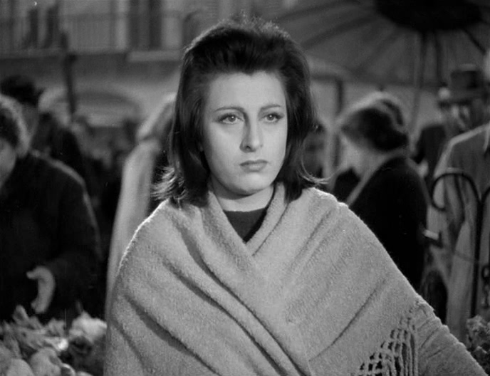 Italian actress Anna Magnani in a scene of the film Campo de' fiori